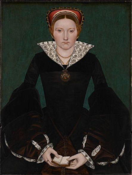 Portrait of a Lady, said to be Cecily Bodenham, formerly abbess of Wilton Abbey.